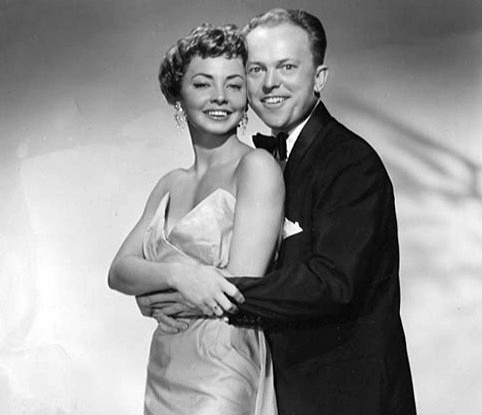 Publicity photo of Phil Ford and Mimi Hines who entertained as a team on stage and screen for many years.